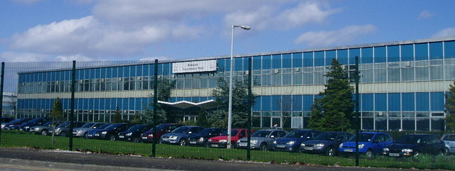 Halewood transmission plant, Jaguar.